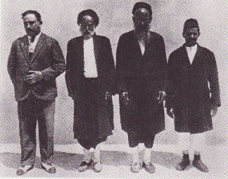 Secretary of the community board of Benghazi (left) and members of the rabbinic court. Next to the secratary is Mordecai HaCohen